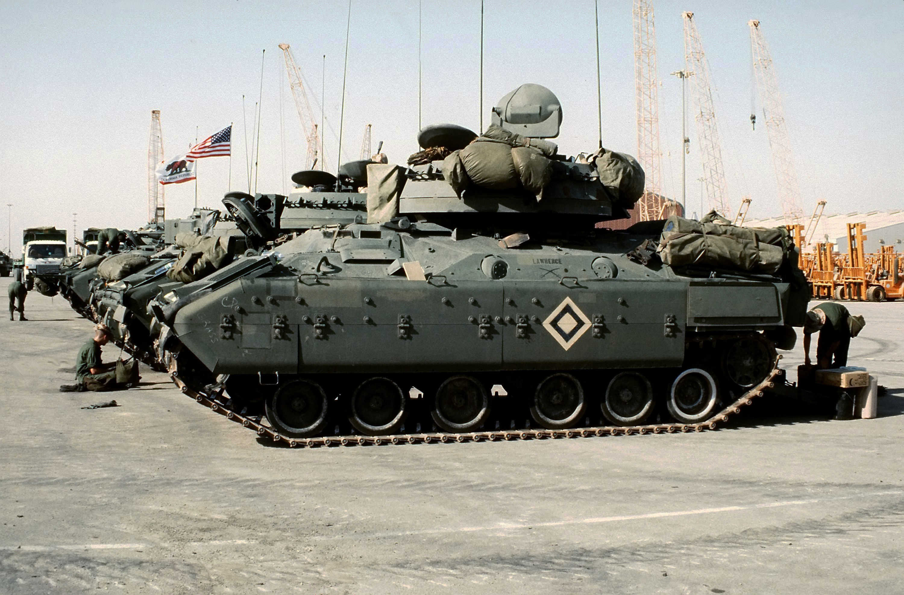 M-3 Bradley cavalry fighting vehicles of L Troop, 3rd Armored Cavalry Regiment, stand in line at a holding area during Operation Desert Shield.